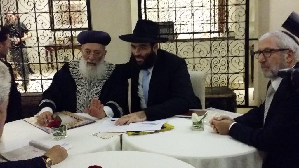 Rabbi Arie Zeev Raskin together with the Rabbi Shlomo Amar